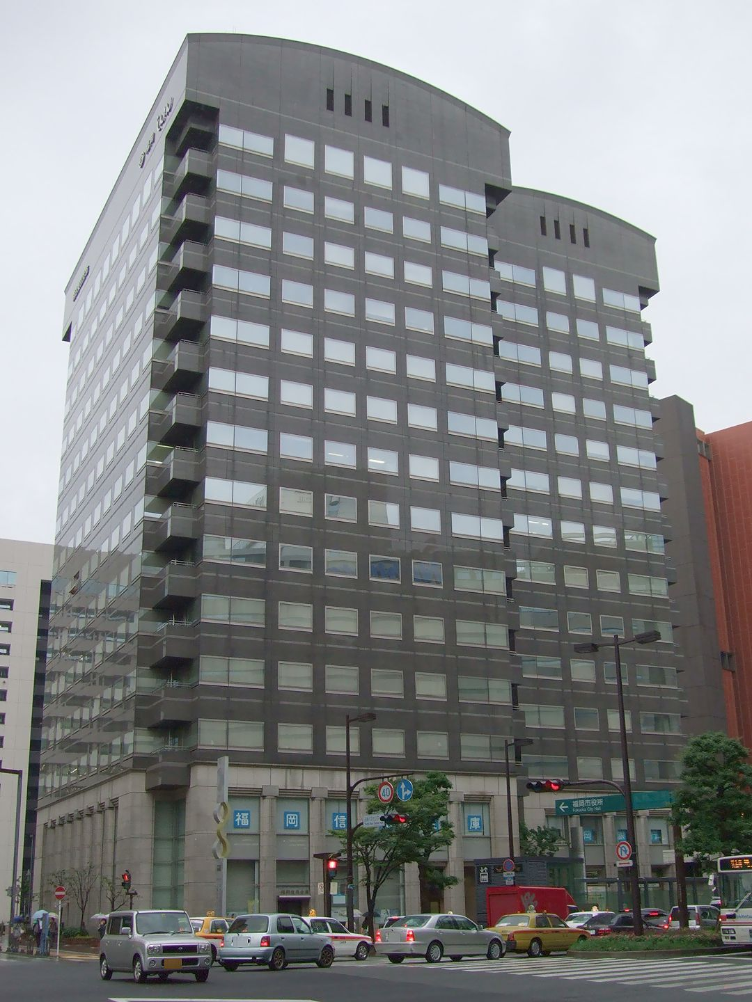 Fukuoka Shinkin Bank head office